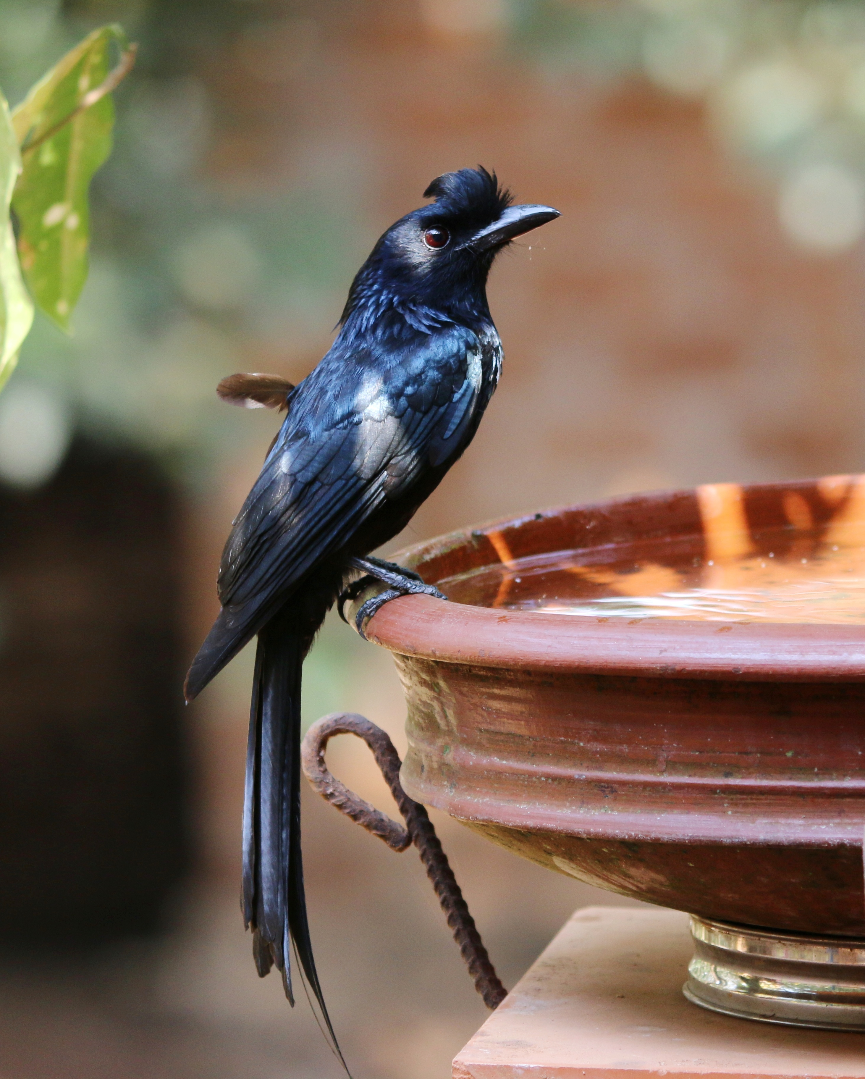 Racket tailed drongo in bird bath